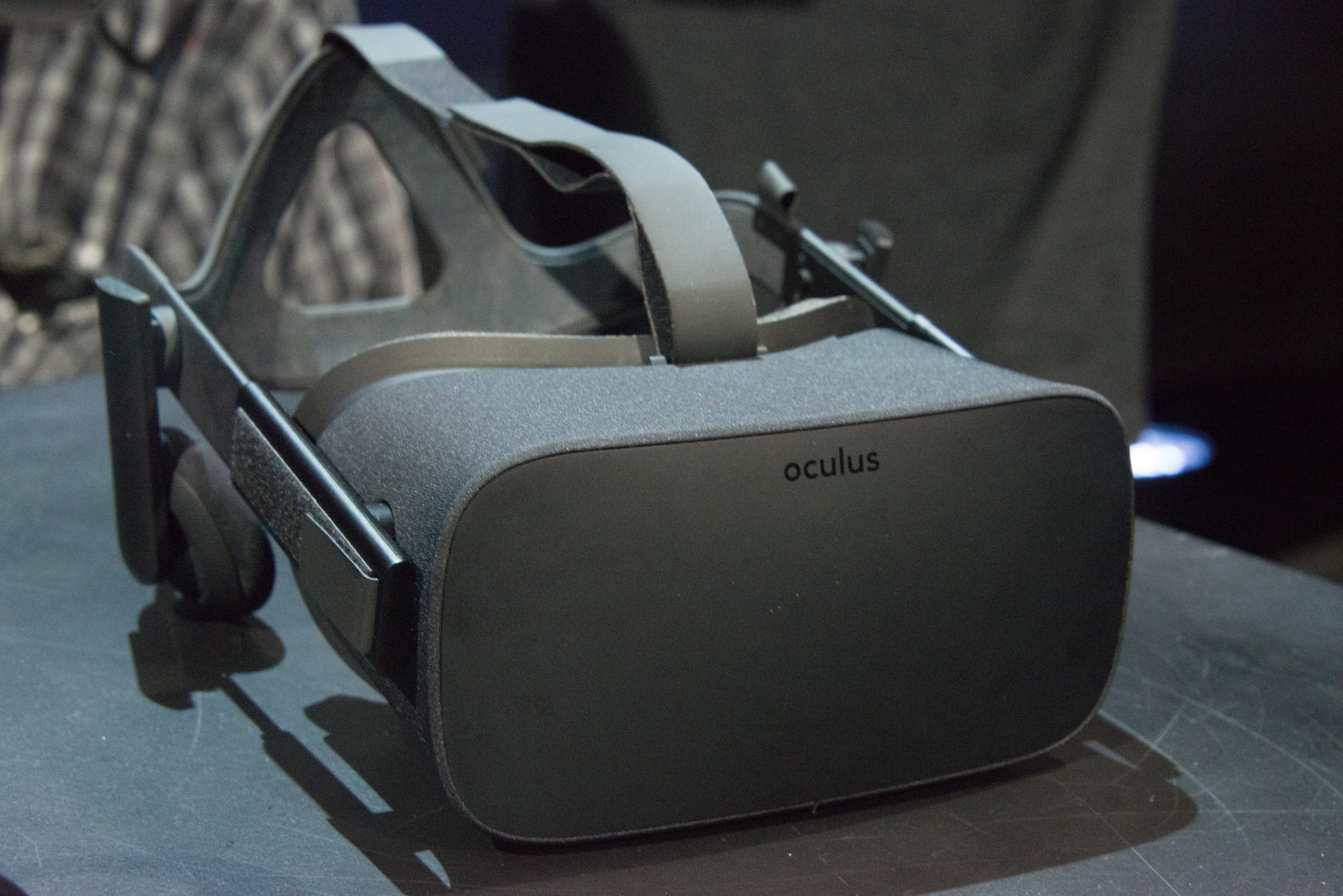 A front view of the Oculus Rift Consumer Version 1.